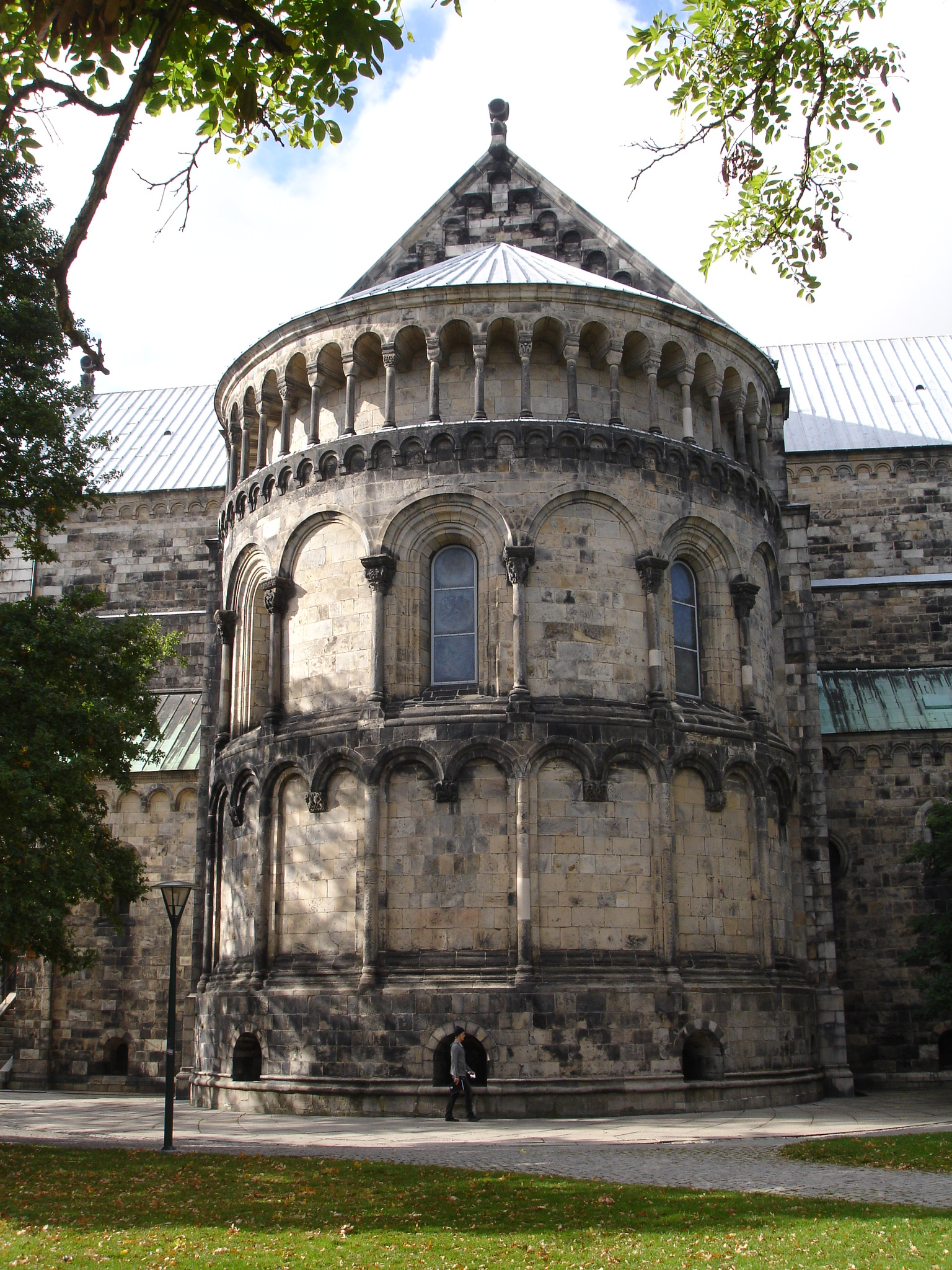 The Cathedral of Lund, apse